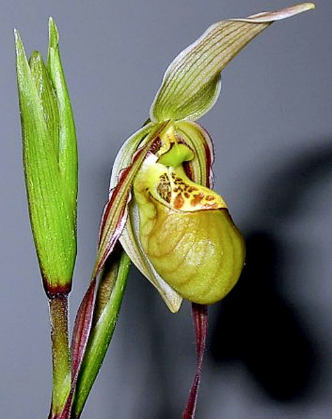 Phragmipedium caricinum